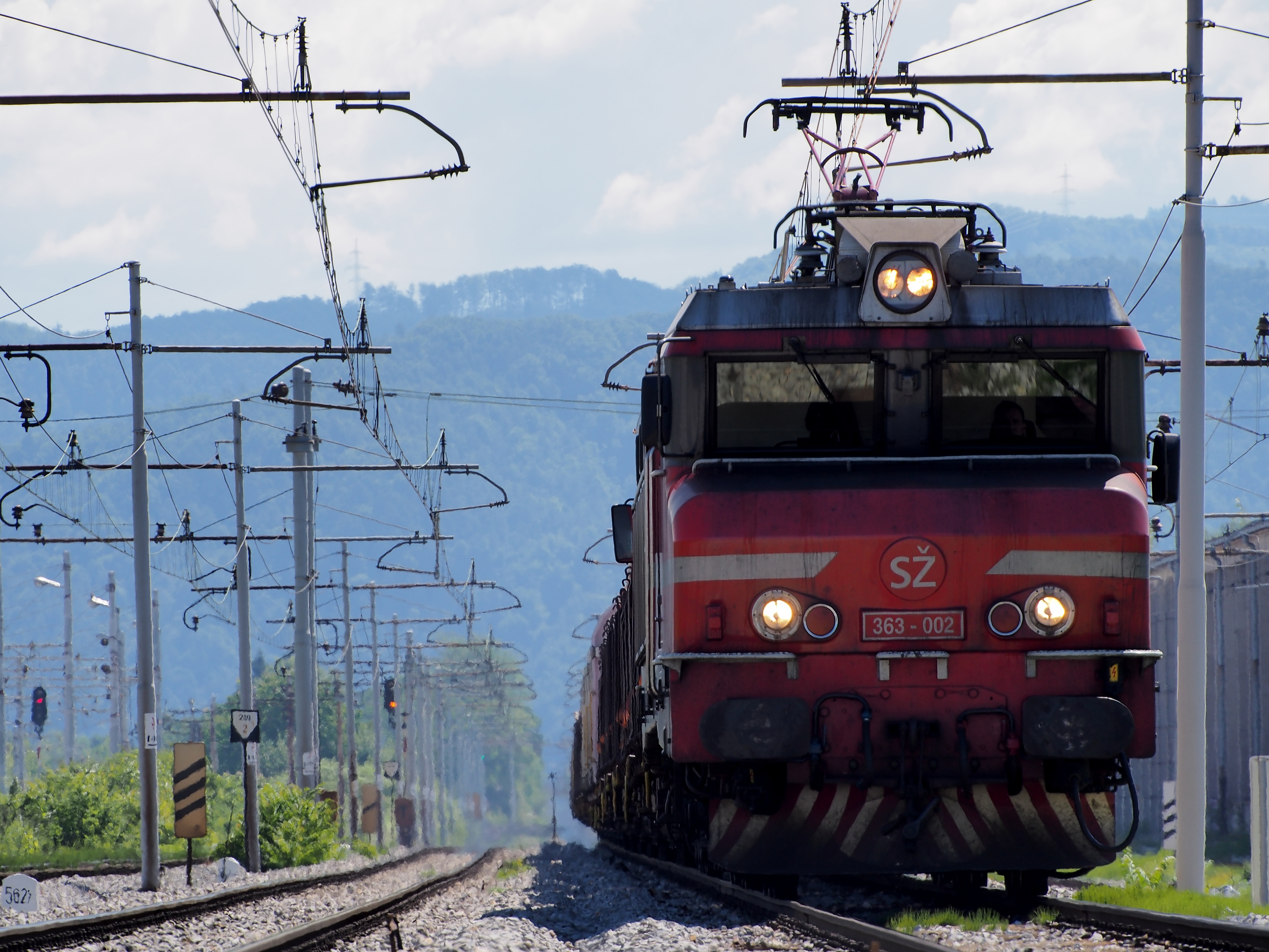 Slovenian railways freight train. Locomotive SŽ 363-002